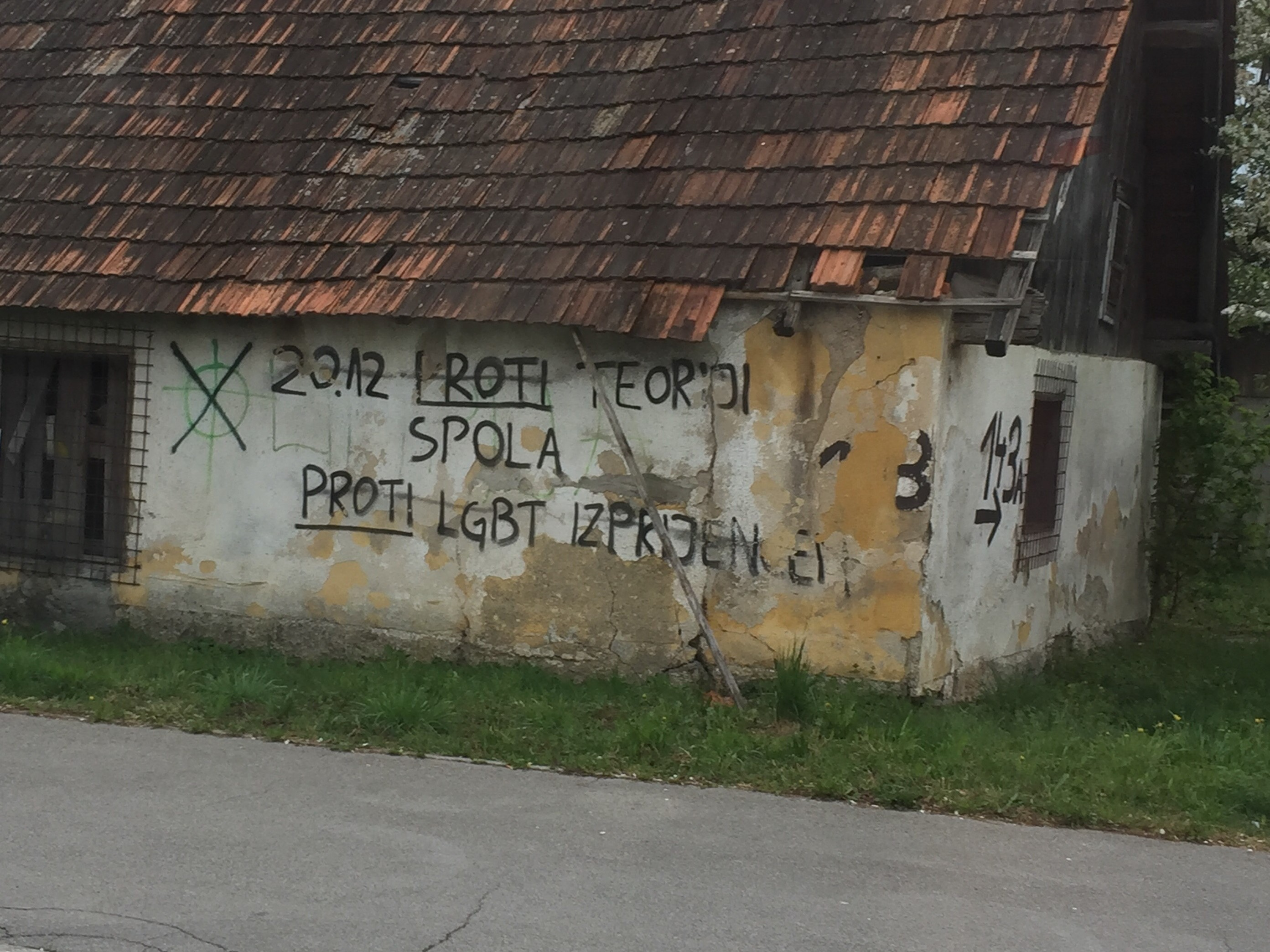 Hateful graffiti on an abandoned house on Long Bridge. It says "20.12. - against gender theory, against LGBT disciples/perverts"